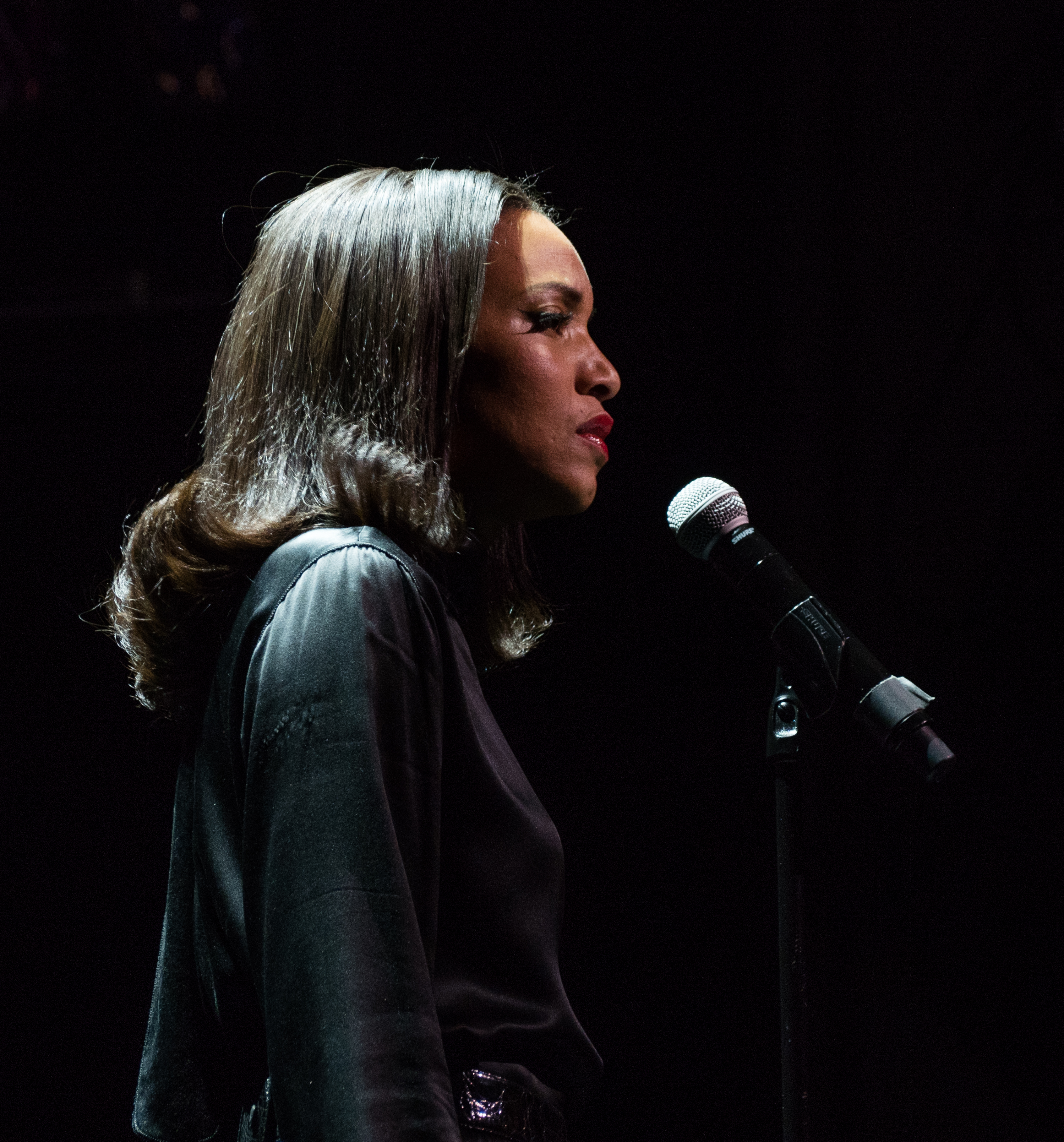 Alice Smith performing at the Apollo on Tribeca Film Festival's opening night